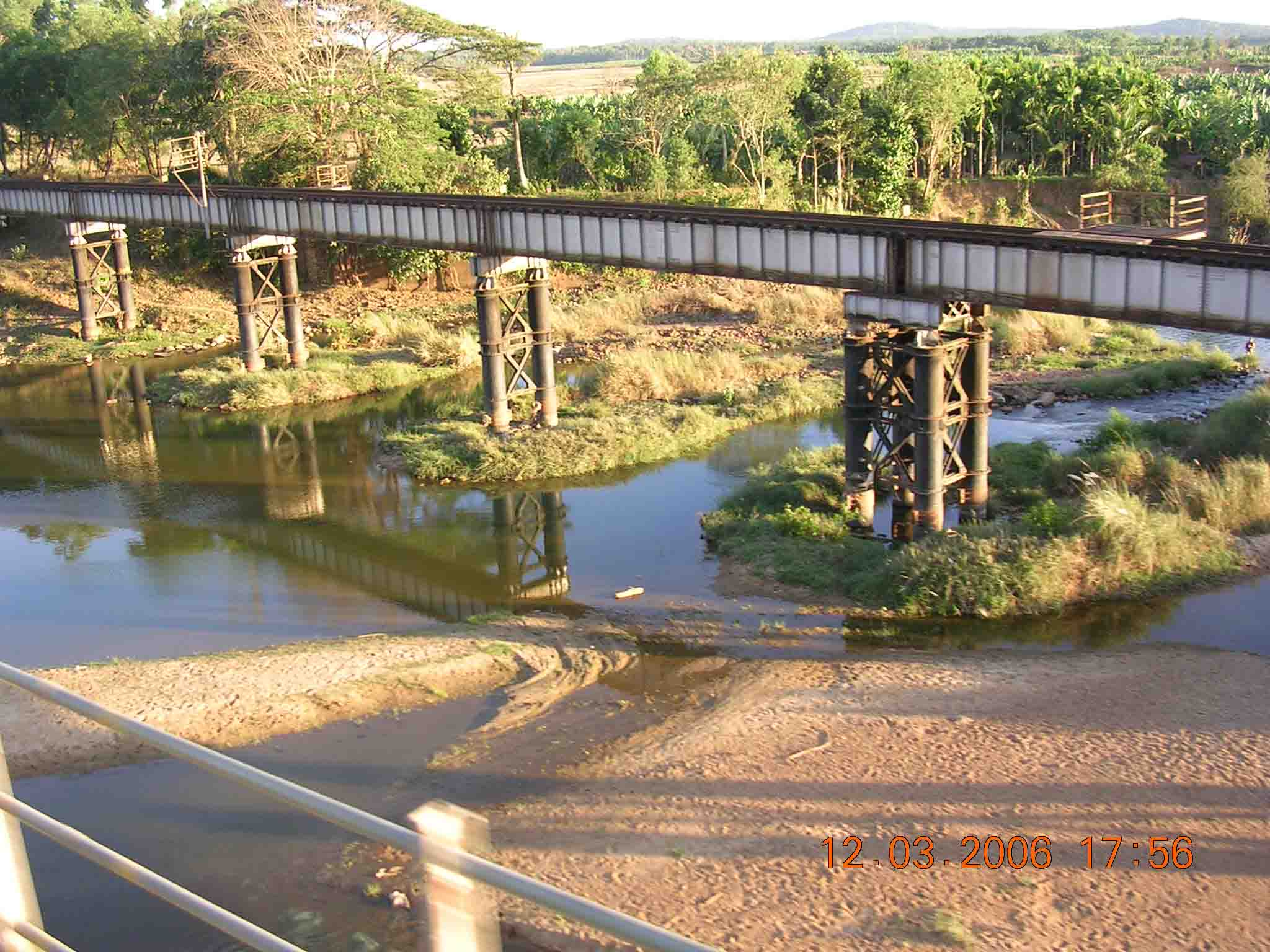 The Old Railroad Bridge over Bharathapuzha River in the State of Kerala, South India, built by the British in 1867 which goes to disuse after completion of the conversion of single track railroad into a double one.